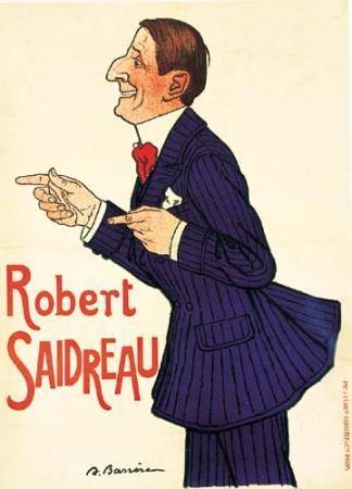 Poster of Robert Saidreau : Robert Saidreau (ca. 1877-1925). Originally a music-hall comic, Saidreau joined Eclair Studios in 1909 as an actor, but almost immediately took up directing, becoming a specialist in police dramas. The poster seen here was created in 1913, when Saidreau took a rare fling at acting and scored a hit with "La Duchesse des Folies-Bergere."